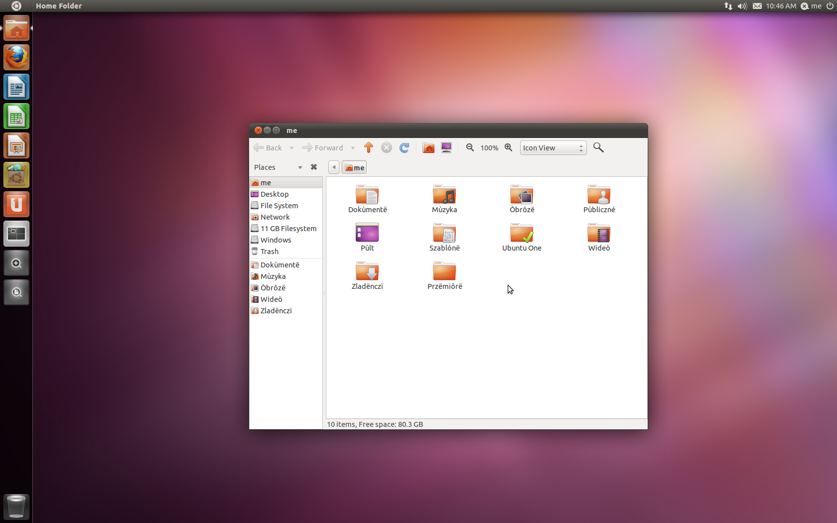 Kashubian screenshot of Ubuntu 11.04 Natty Narwhal.